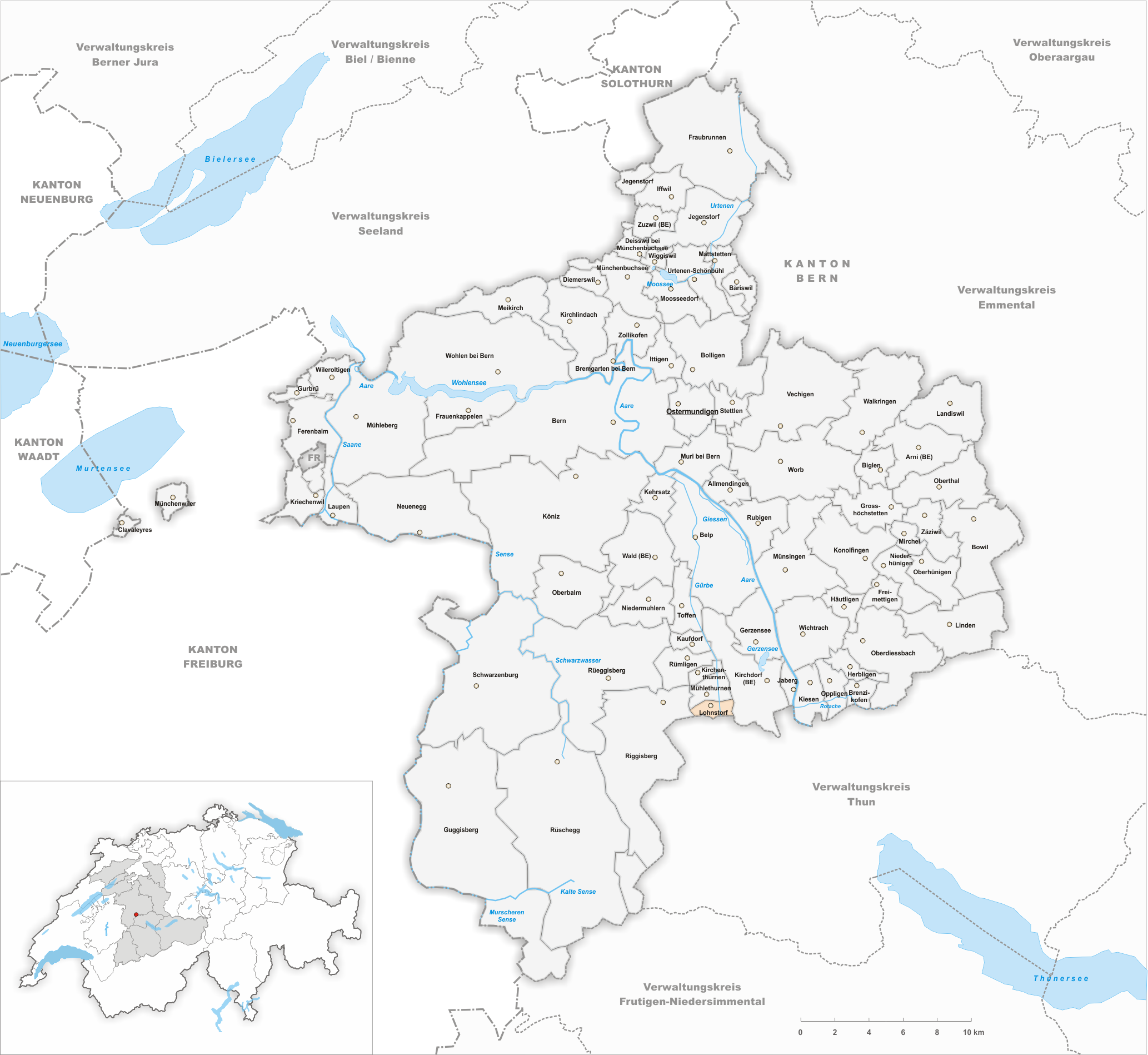 Municipality Lohnstorf